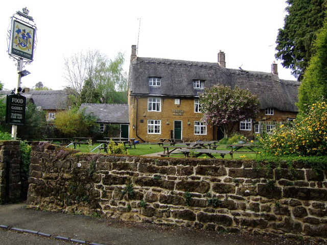 The North Arms, Mills Lane, Wroxton, Oxfordshire, seen from the south. When this photo was taken the pub was controlled by Greene King Brewery.